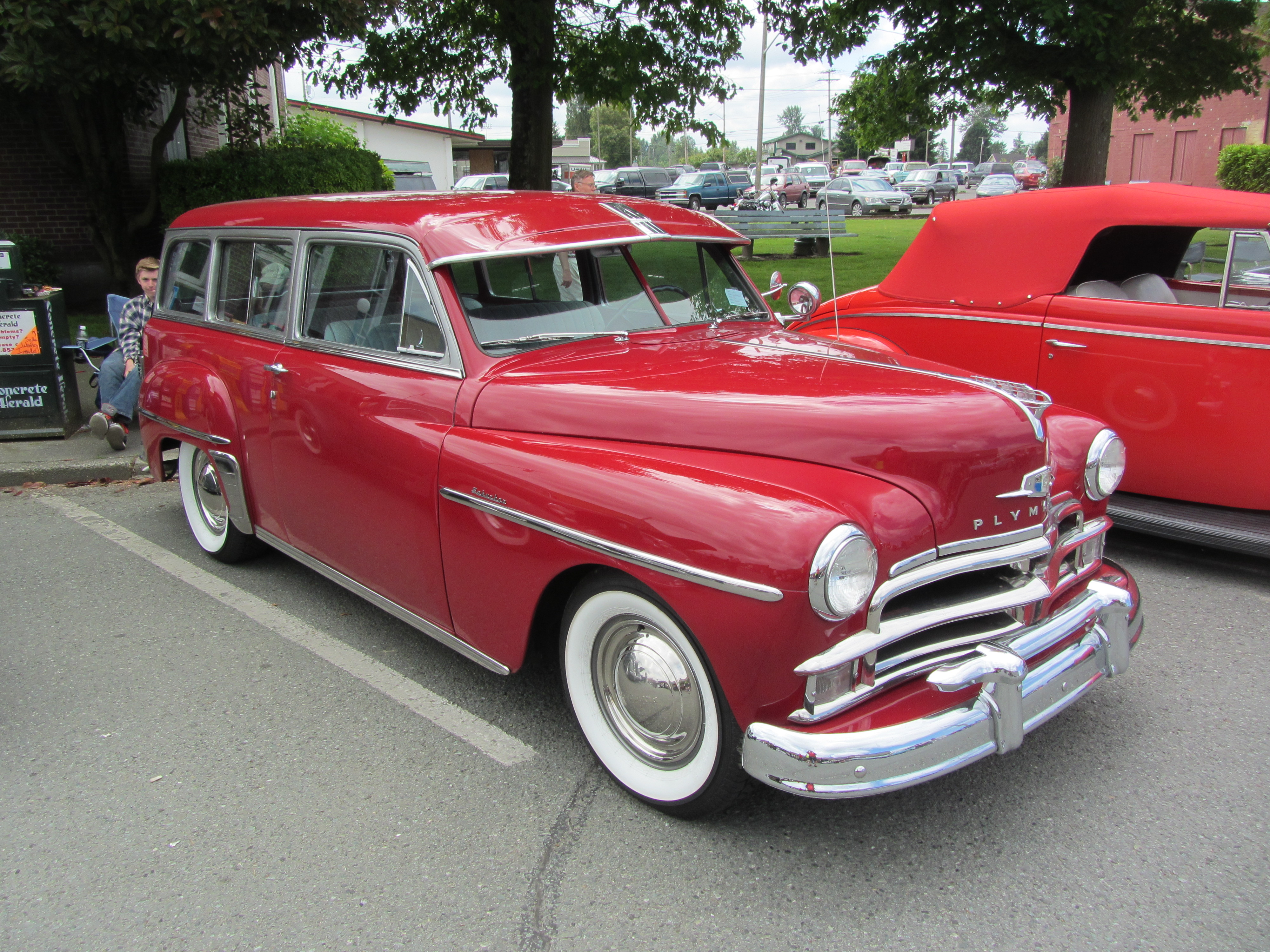 Car show in Sedro-Woolley, Washington. The gray window frames are not original, but they really move this car up a class.